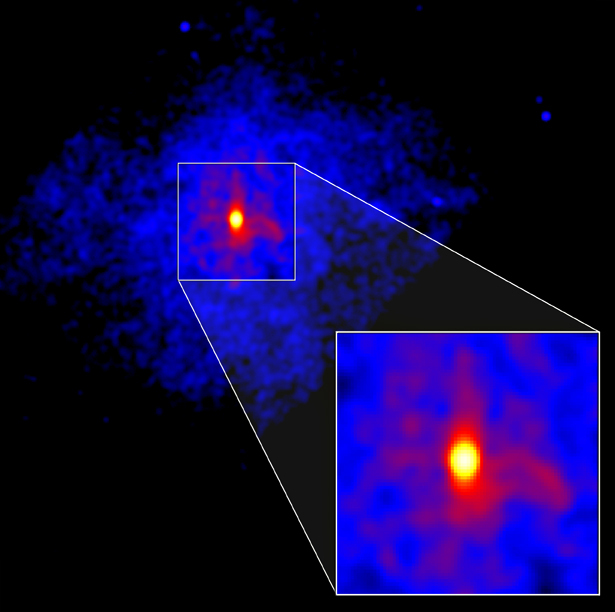 An image of 3c58 from the orbiting Chandra X-Ray Observatory.